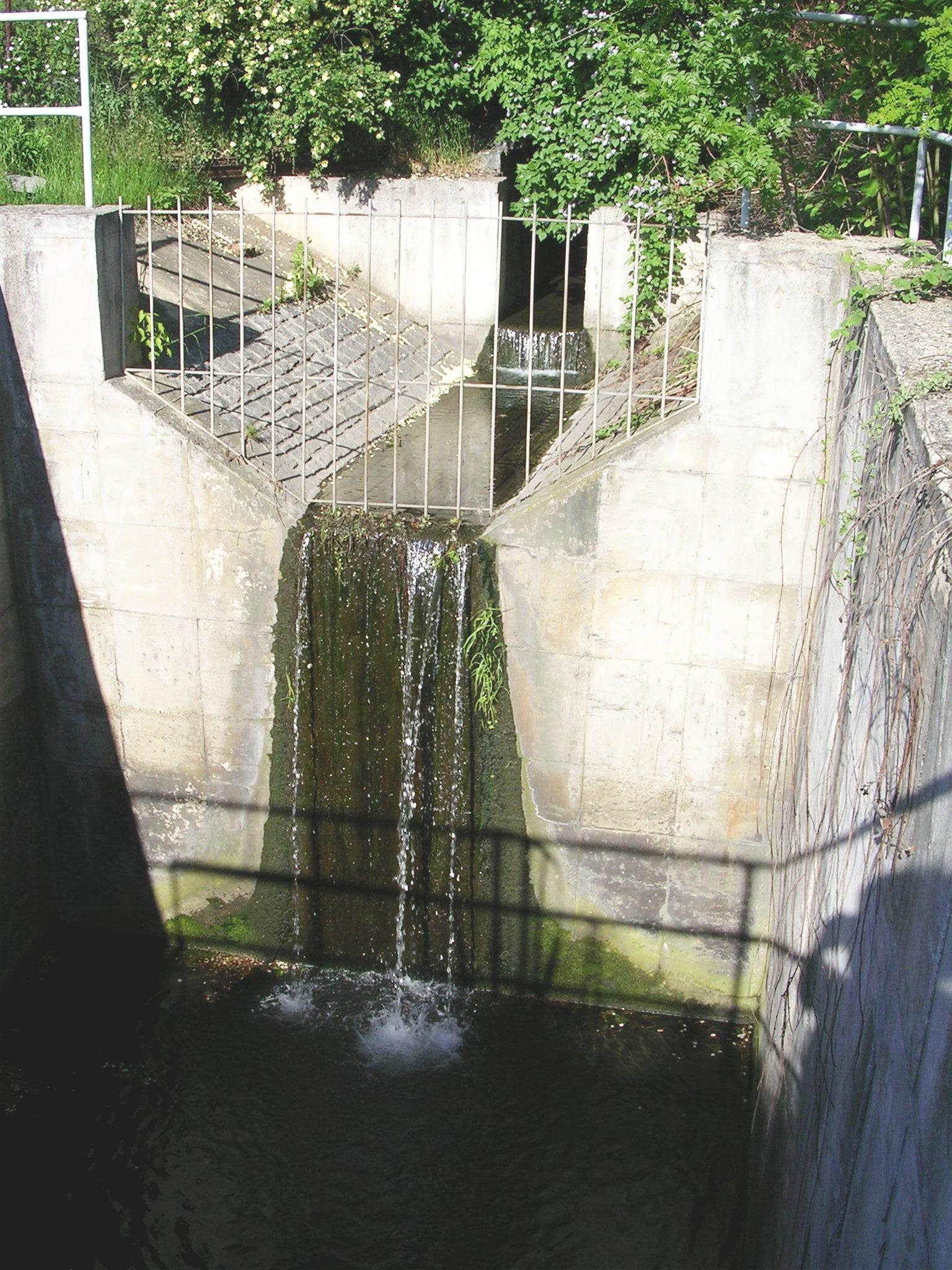 Slatinský Creek, Prague, the Czech Republic.